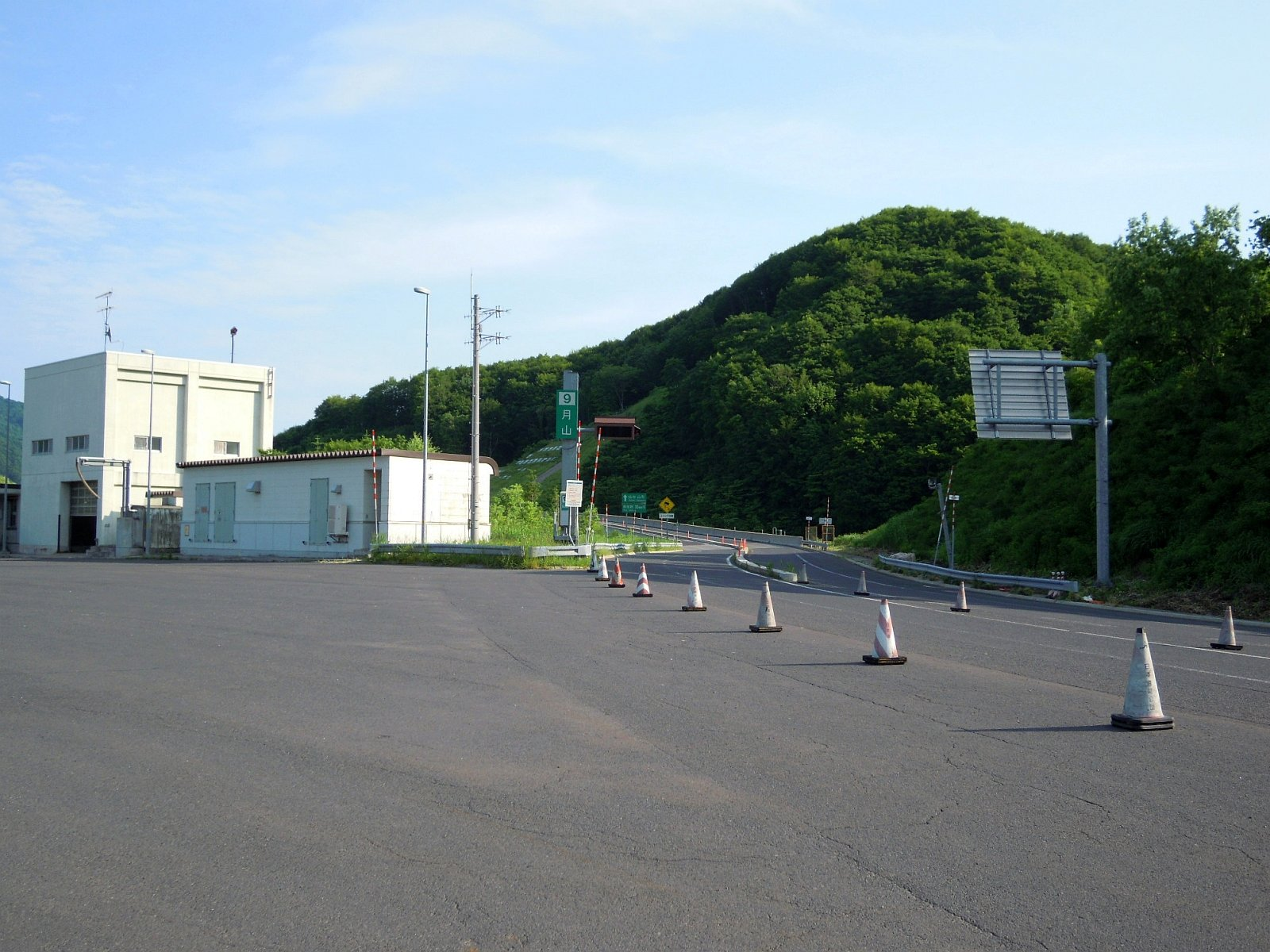 This Interchange, Gassan Interchange, is on Yamagata Expressway, in Nishikawa Town, Yamagata Prefecture, Japan.